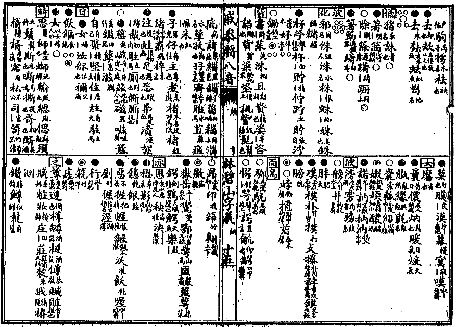 A page from the Qi Lin Bayin, a 17th-century compilation of two rime books for the Fuzhou dialect. The top half is part of the -y final in the Qī cānjūn bāyīn zìyì biànlǎn 戚參軍八音字義便覽 "Eight Sounds of General Qi and a Convenient Prospectus of Word Meaning", covering the initials t (低), pʰ (波), tʰ (他), ts (曾), n (日), and s (時). The lower half is part of the -aung/-auk final in the Tàishǐ Lín Bìshān xiānshēng zhūyù tóngshēng 太史林碧山先生珠玉同聲 "Homonyms of Pearl and Jade by the Honorable Lin Bishan", covering the initials n (女), pʰ (波), ng (鳥), ∅ (亦) and ts (之).